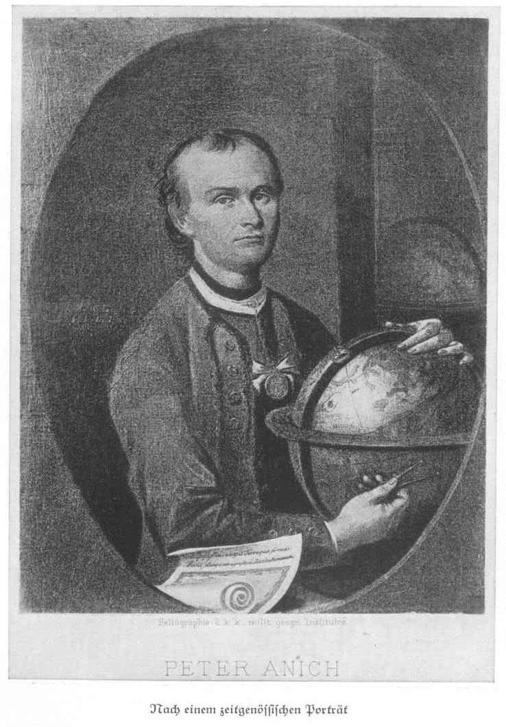 Scan from a historic book